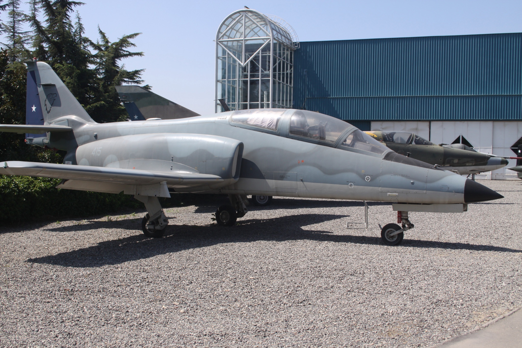 At Santiago Los Cerillos